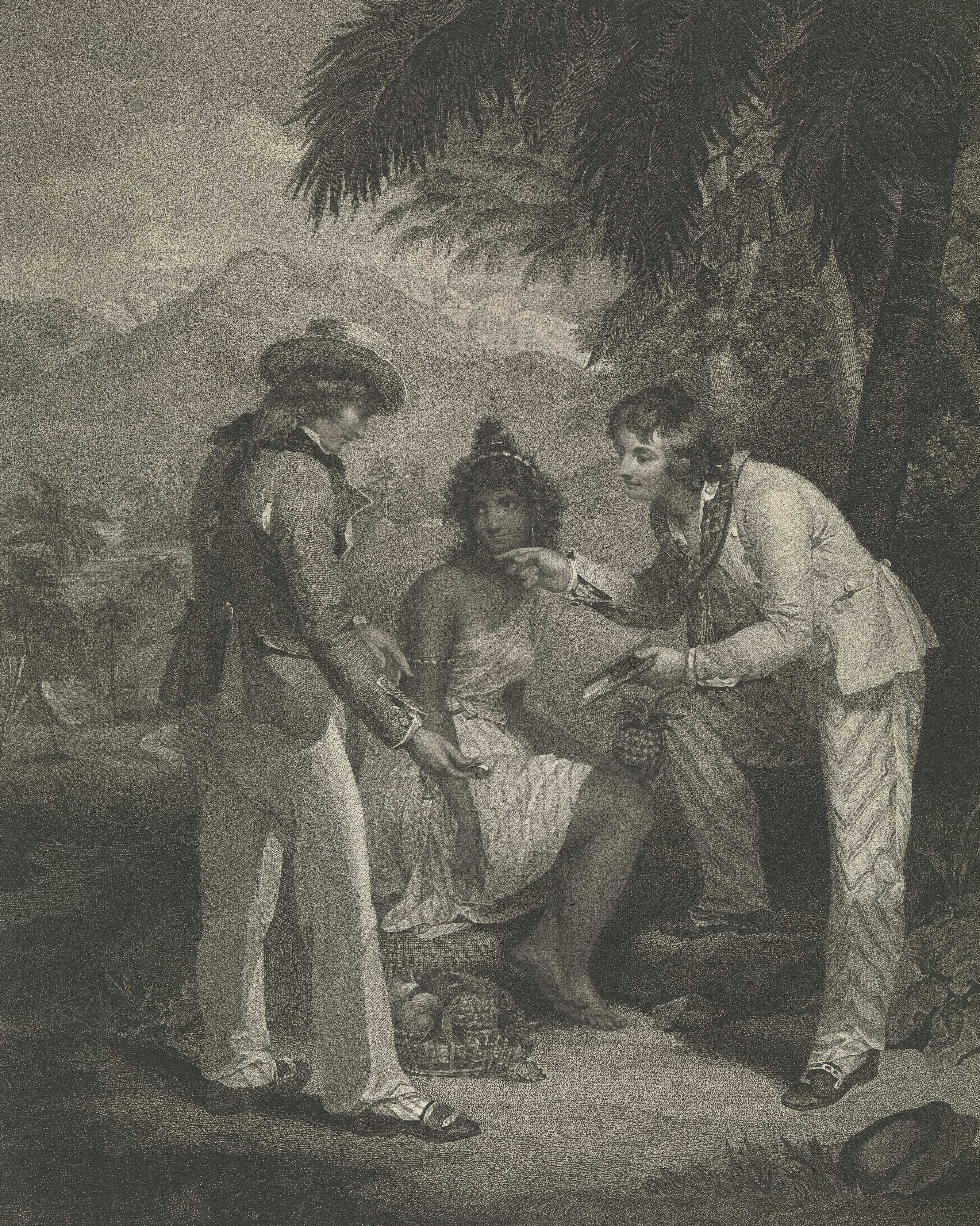 Scarcity in India This is one of a pair of Singleton prints that contrast British wealth with food shortages in India (the other is entitled ‘British Plenty’, see PAH7357). There had been a particularly bad famine in Bengal in 1769-1770. The artist Henry Singleton illustrated Shakespeare’s plays and produced sentimental genre scenes with an eye to the print trade. This pair of prints shows sailors on shore leave in pursuit of local girls. They provide particularly clear illustrations of seamen’s dress in the 1790s. Two sailors are bargaining with a scantily clad Indian girl with a basket of fruit. Although pineapples were luxury goods at this time, the mirror, and in particular the watch offered by the seaman on the left represent a disproportionately high price for the fruit. The girl’s hairstyle resembles a pineapple reinforcing the point that she is the object of their attention rather than her wares. The two men are dressed in their shore-going clothes with buckled shoes and silk stockings. They wear baggy cotton trousers and short jackets. The sleeve of the left-hand sailor has a mariner’s cuff outlined in white piping and his wool jacket has metal buttons, which are probably made of brass. He wears a straw hat and his hair is done in a pigtail or queue. Both men have large silk neckerchiefs probably originating in India. Sailor’s dress was much the same in the merchant service and the navy. There was no uniform for the lower ranks at this time. Scarcity In India